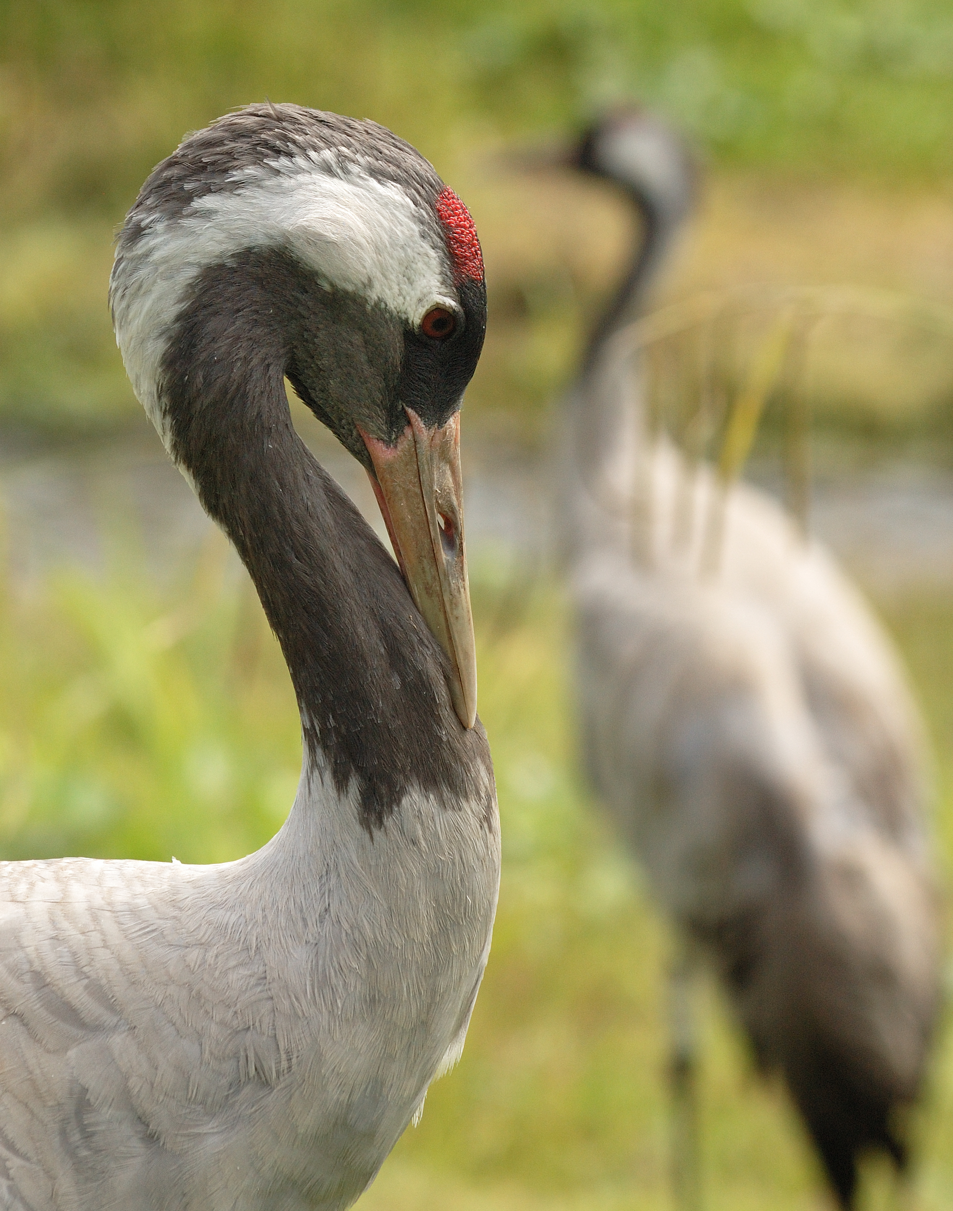 Grus grus, head.